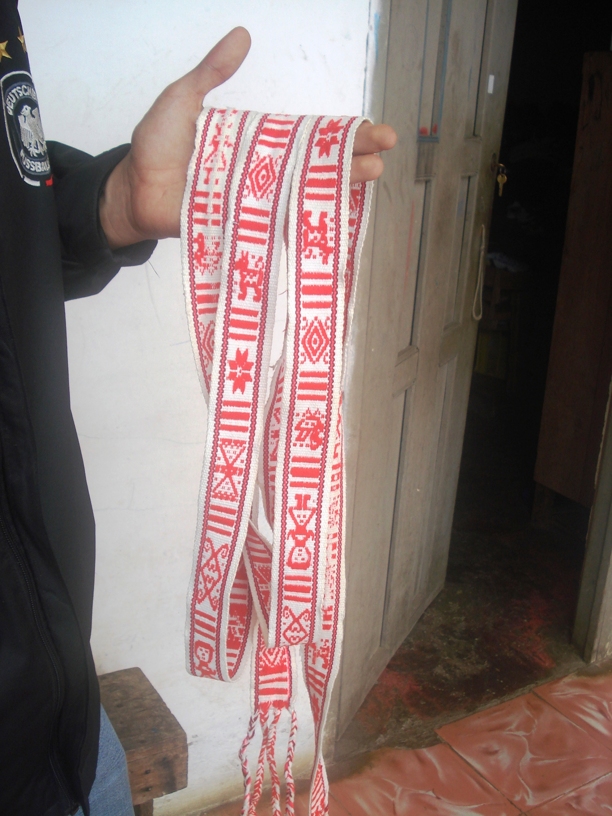 chumbe